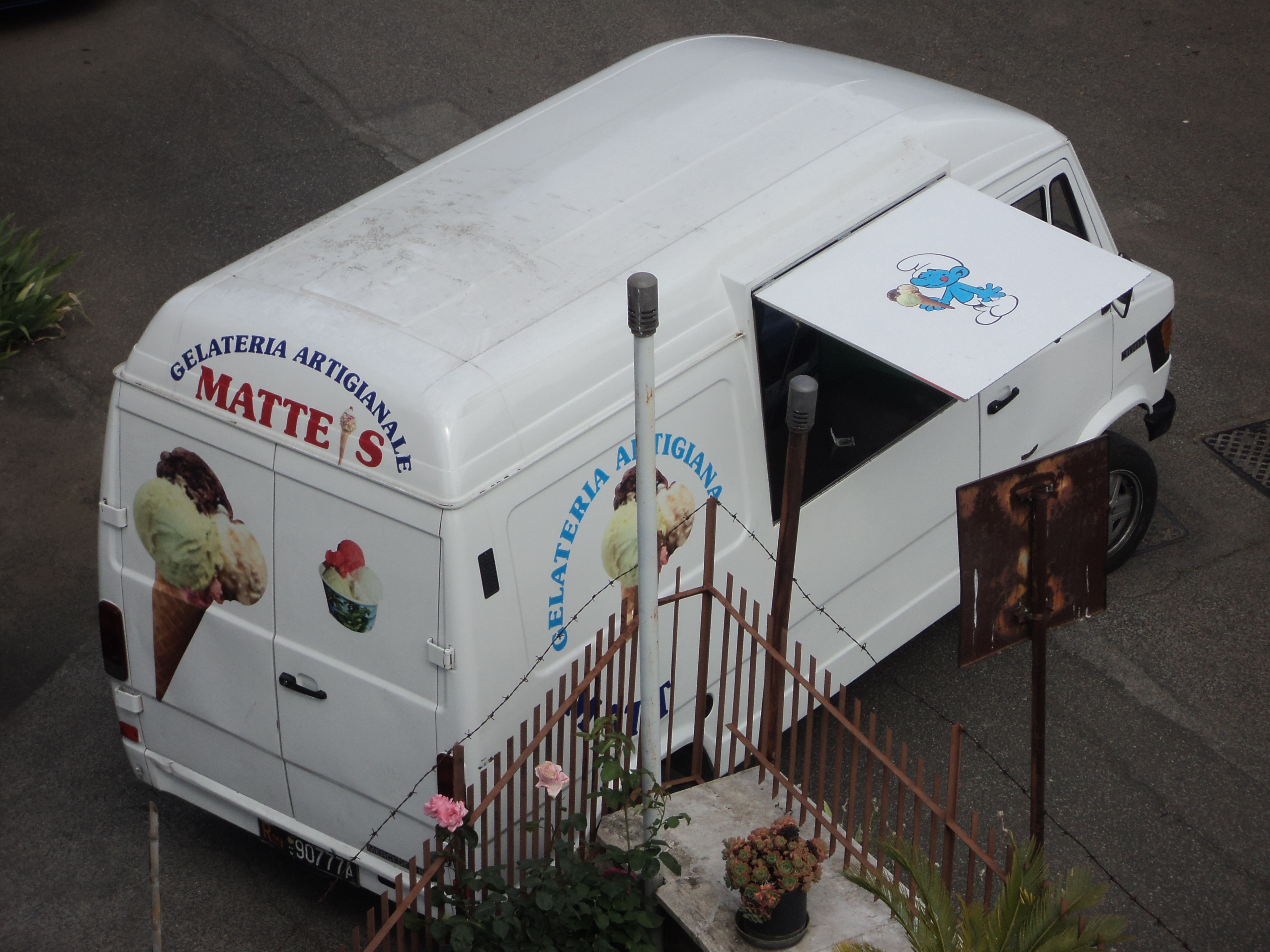 Ice cream vans in Italy